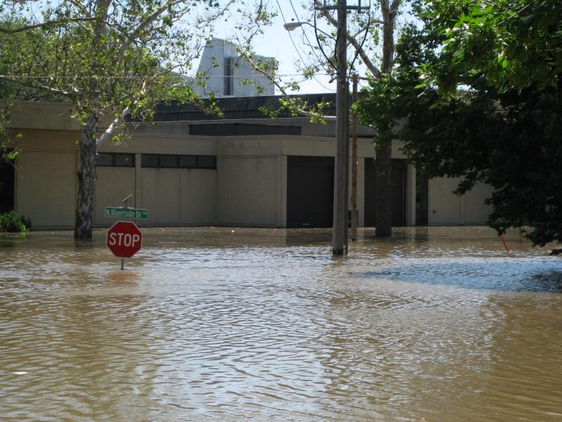 Flood in Iowa City, IA taken on N. Riverside Dr. across from the arts buildings